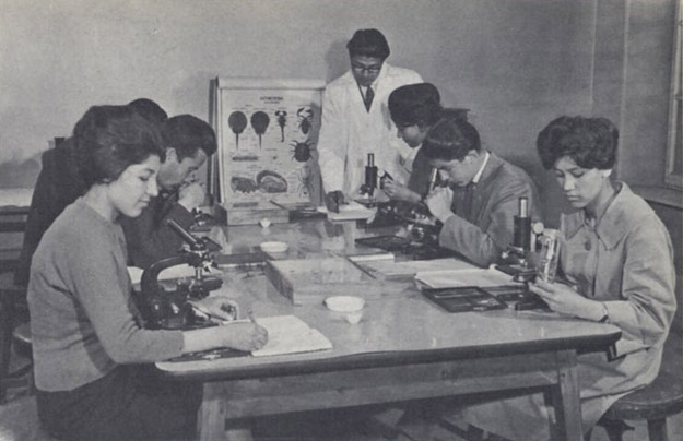 Original caption: "Biology class, Kabul University."